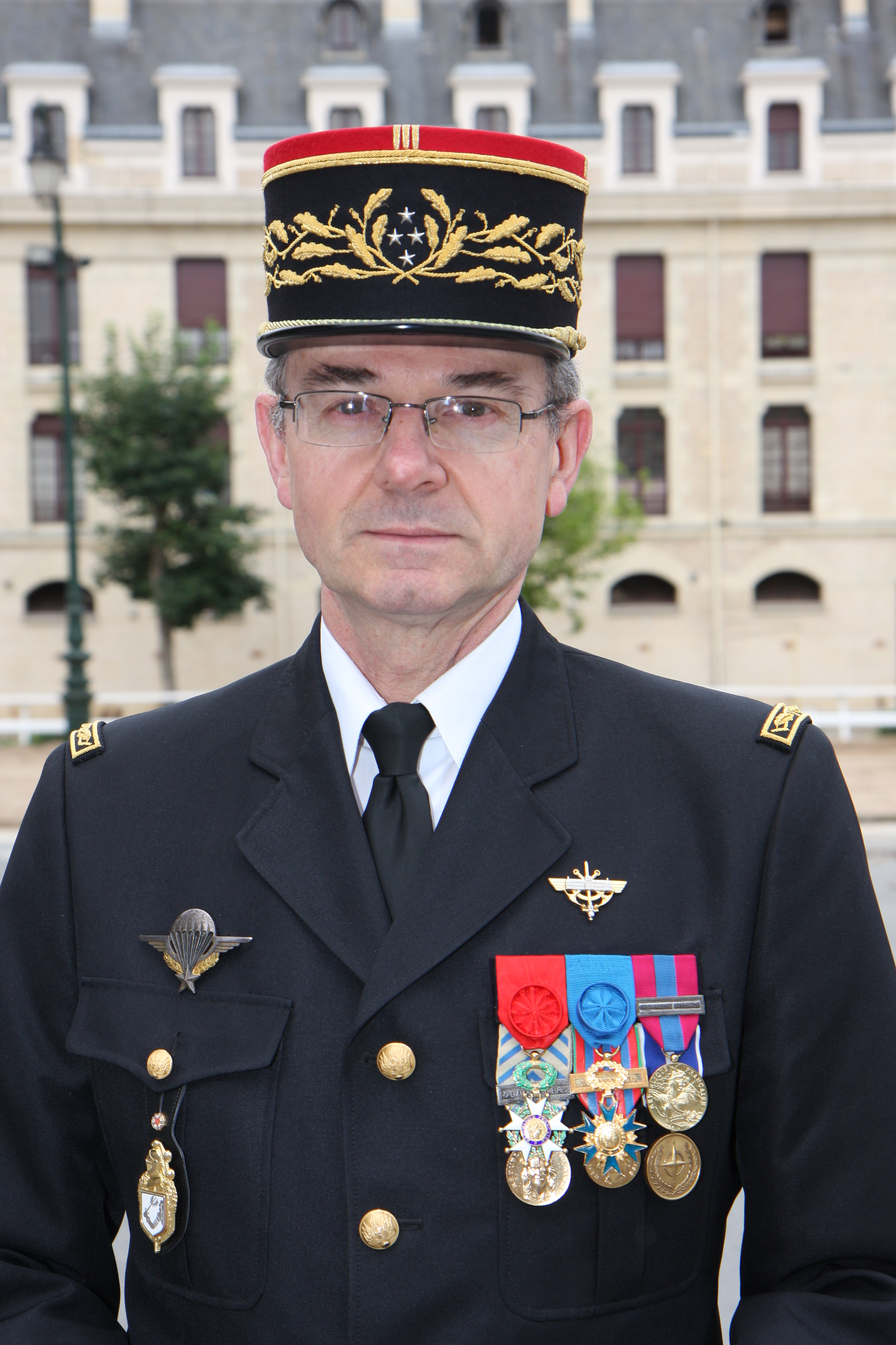 Général de corps d'armée (Lieutenant general) Richard Lizurey French Gendarmerie nationale